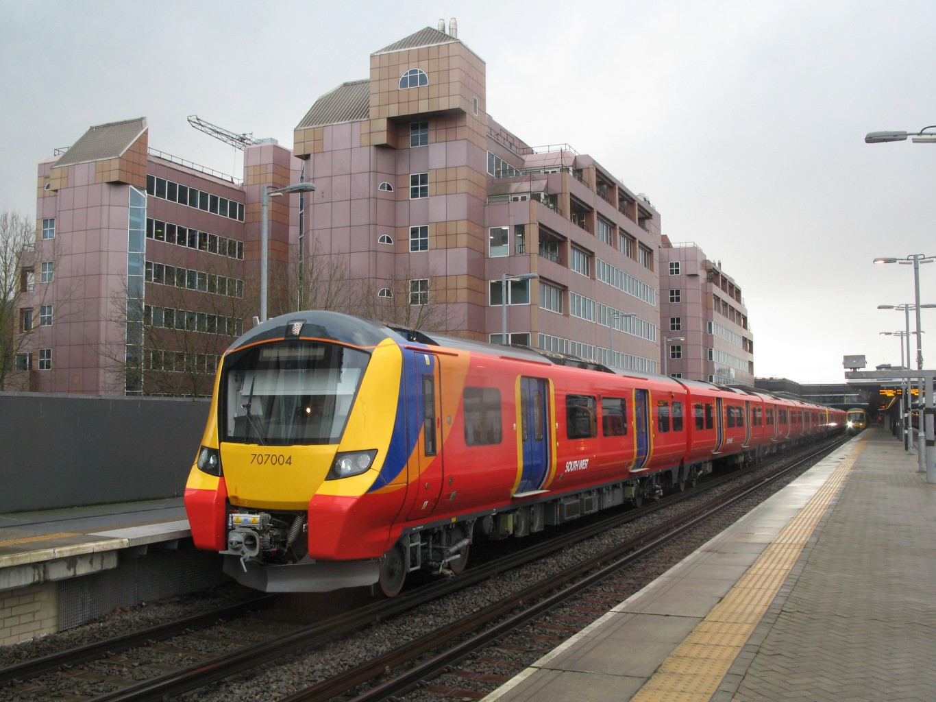 A pair of South West Trains' new class 707 electric units, 707004 and 707006, are at Reading on a crew-training trip. These five-car trains won't usually operate this route but instead will release older trains from the Windsor line to replace the current four-car units.